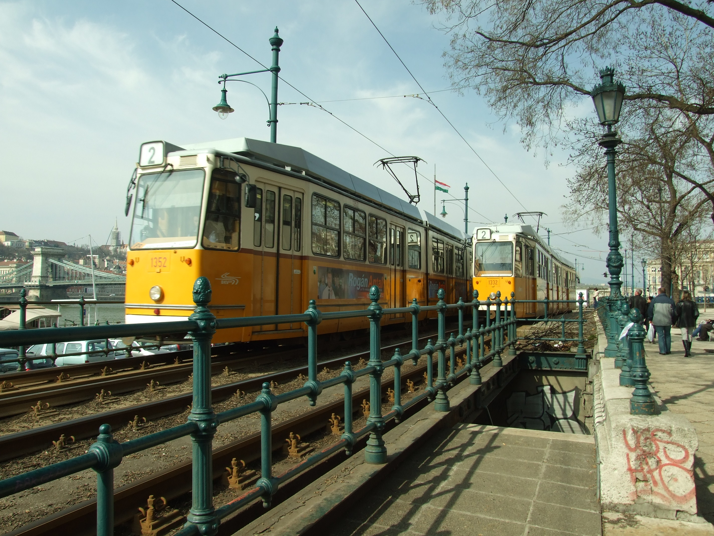 Trams on Belgrád rakpart quay in Budapest, Hungary